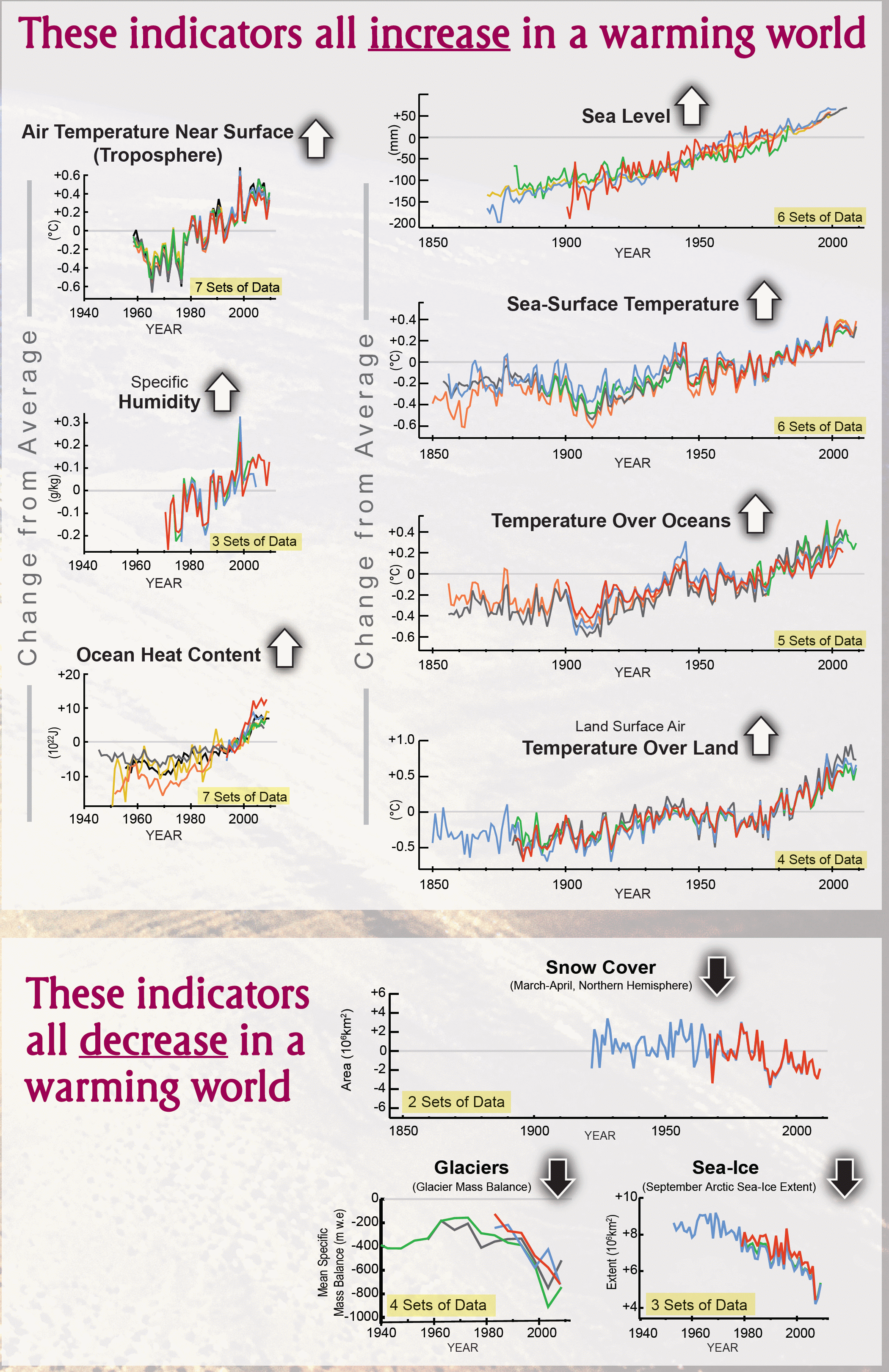 This image shows several graphs of climate indicators. The time period covered by each graph varies. The graphs are divided into two groups: (1) indicators that increase if the world is warming, and (2) indicators that decrease if the world is warming. The graphs in the first group are: (a) air temperature near surface (troposphere), (b) specific humidity, (c) ocean heat content, (d) sea level, (e) sea-surface temperature, (f) temperature over the oceans, and (g) temperature over the land. The graphs in the second group are: (a) snow cover (March-April, Northern Hemisphere), (b) glaciers (glacier mass balance), and (c) sea-ice (September Arctic sea-ice extent).From page 2 of the cited public-domain source: "A comprehensive review of key climate indicators confirms the world is warming and the past decade was the warmest on record. More than 300 scientists from 48 countries analyzed data on 37 climate indicators, including sea ice, glaciers and air temperatures. A more detailed review of 10 of these indicators, selected because they are clearly and directly related to surface temperatures, all tell the same story: global warming is undeniable. For example, the surface air temperature record is compiled from weather stations around the world, and analyses of those temperatures from four different institutions show an unmistakable upward trend across the globe. But even without those measurements, nine other major indicators of climate change agree: the earth is growing warmer and has been for more than three decades.A warmer climate means higher sea level, humidity and temperatures in the air and ocean. A warmer climate also means less snow cover, melting Arctic sea ice and shrinking glaciers."